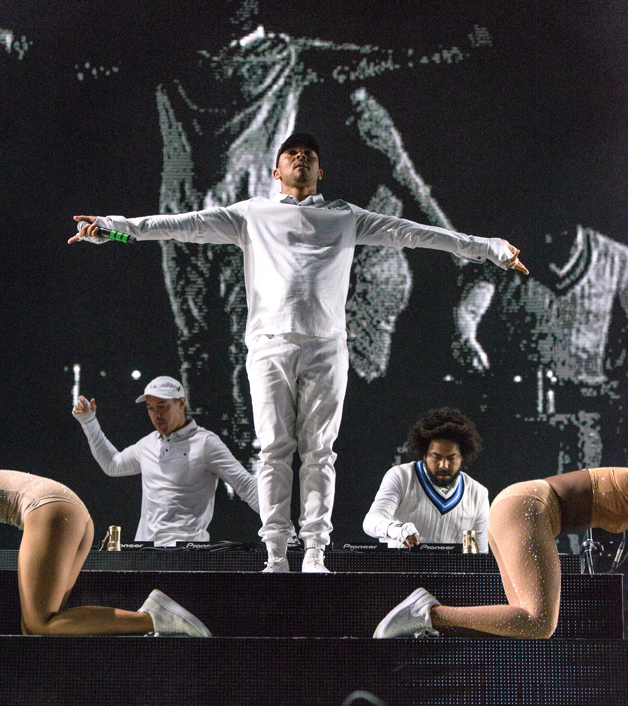 Major Lazer @ Rock im Park 2016